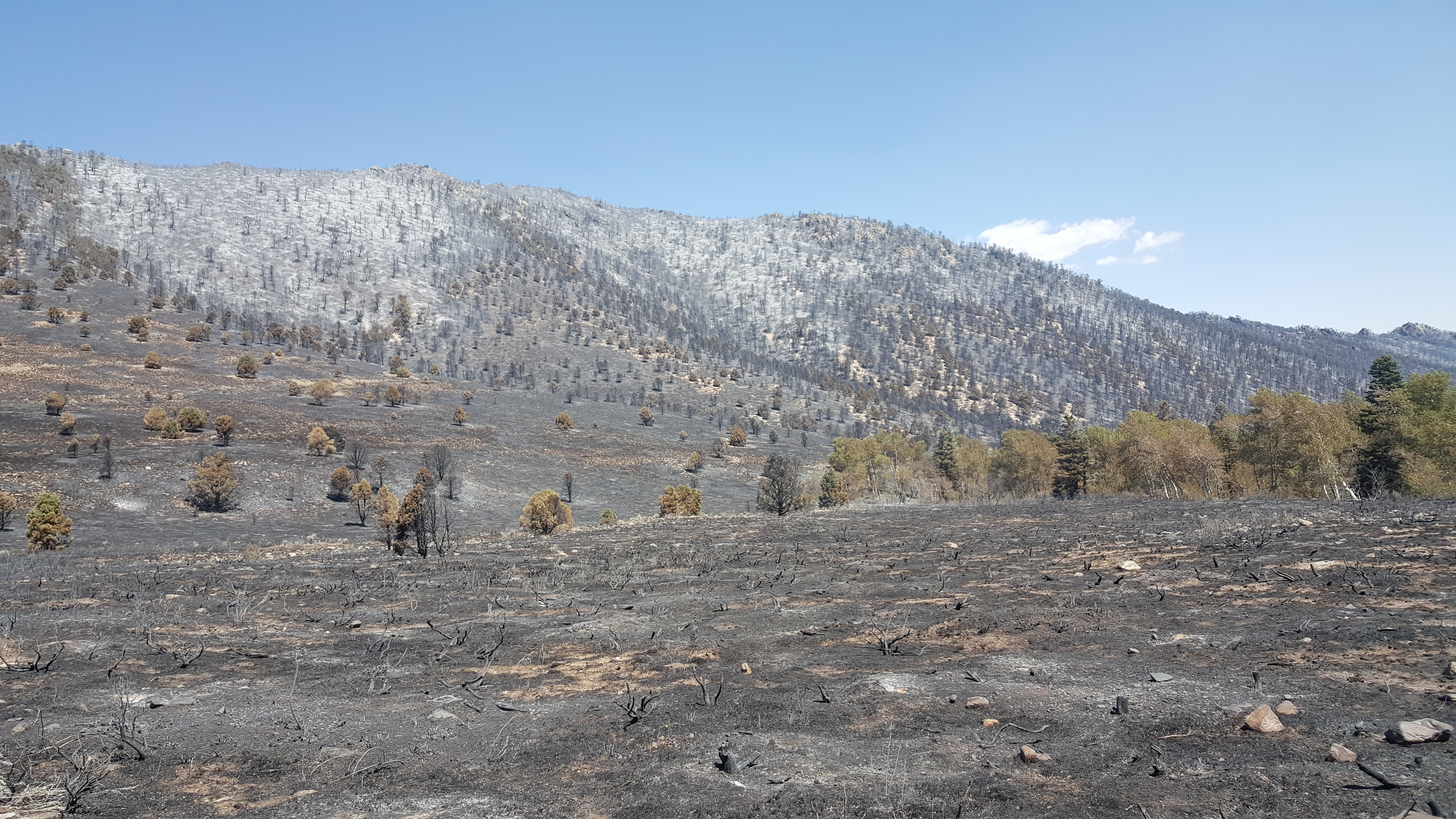 On Thursday August 11, 2016 the park superintendent with natural resources staff, was able to visit the fire area near the Strawberry Creek Campground and Trailhead Area. These areas are still closed to the public and unsafe for travel. Do not enter closed areas. less